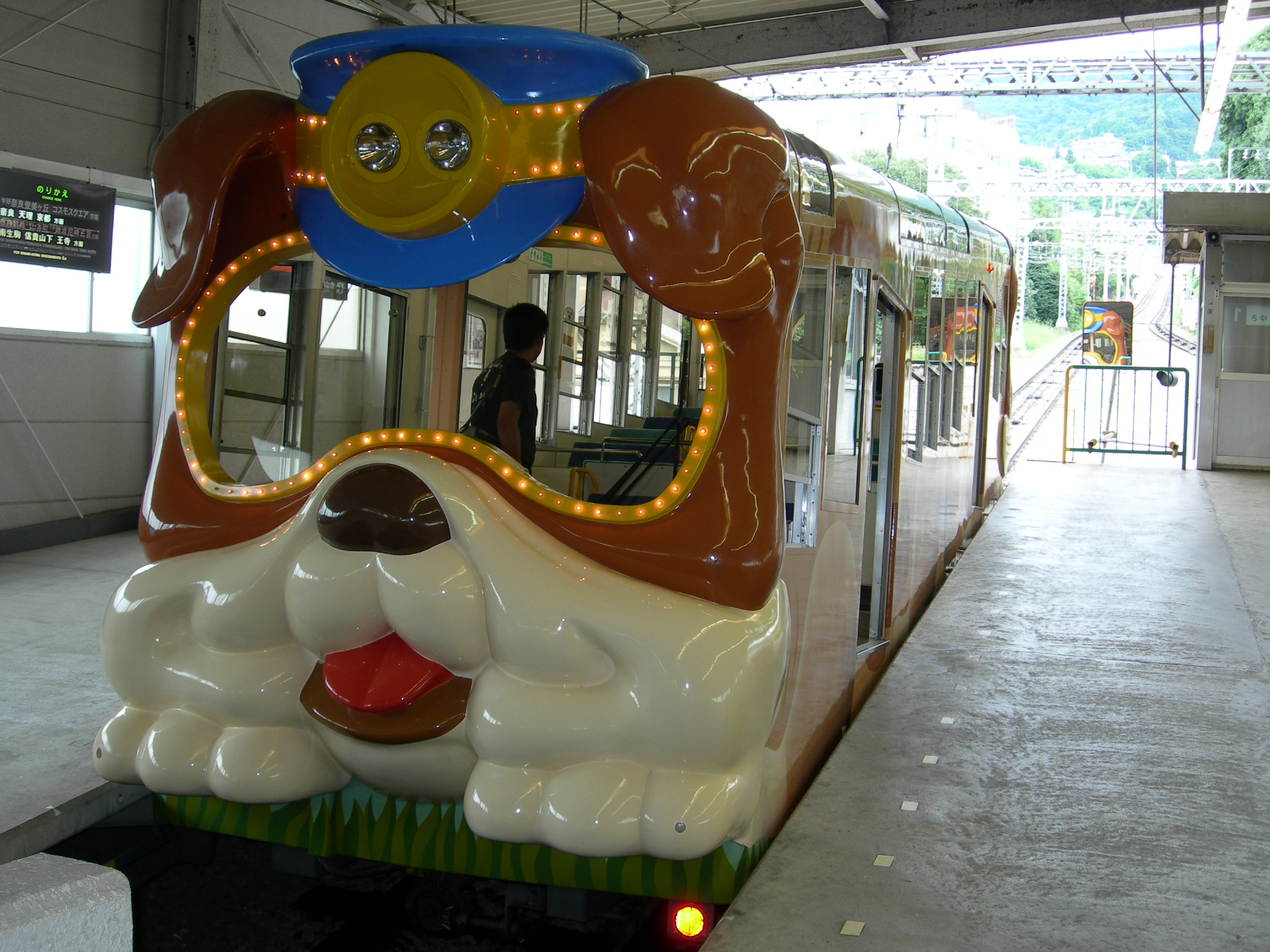 Kintetsu Ikoma Cable Line "Bull", Torii-mae Station, Ikoma, Nara. Taken in 2009.